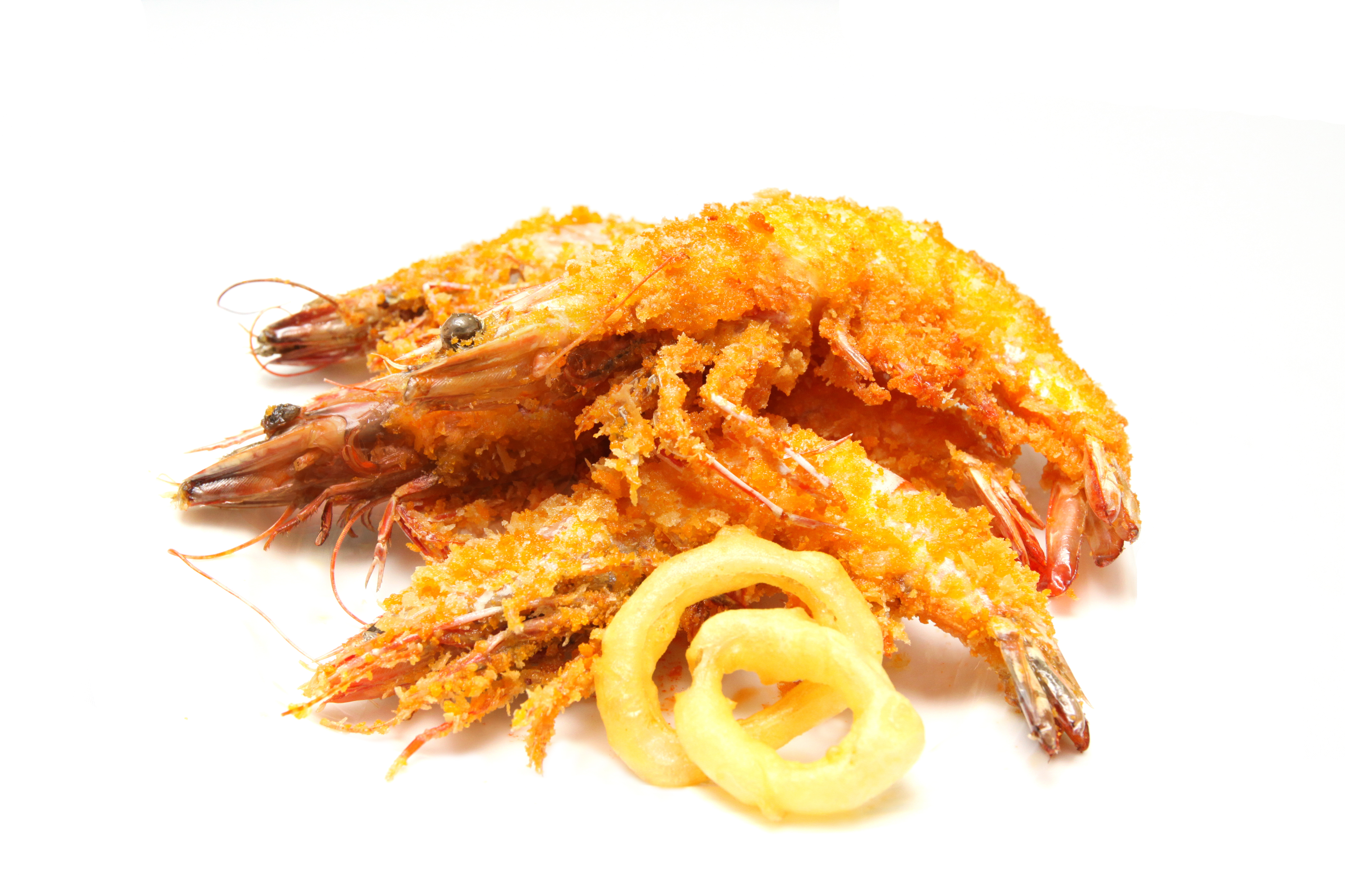 Fried chicken - Provided by Panko breadcrumbs with paprika and spicy flavours